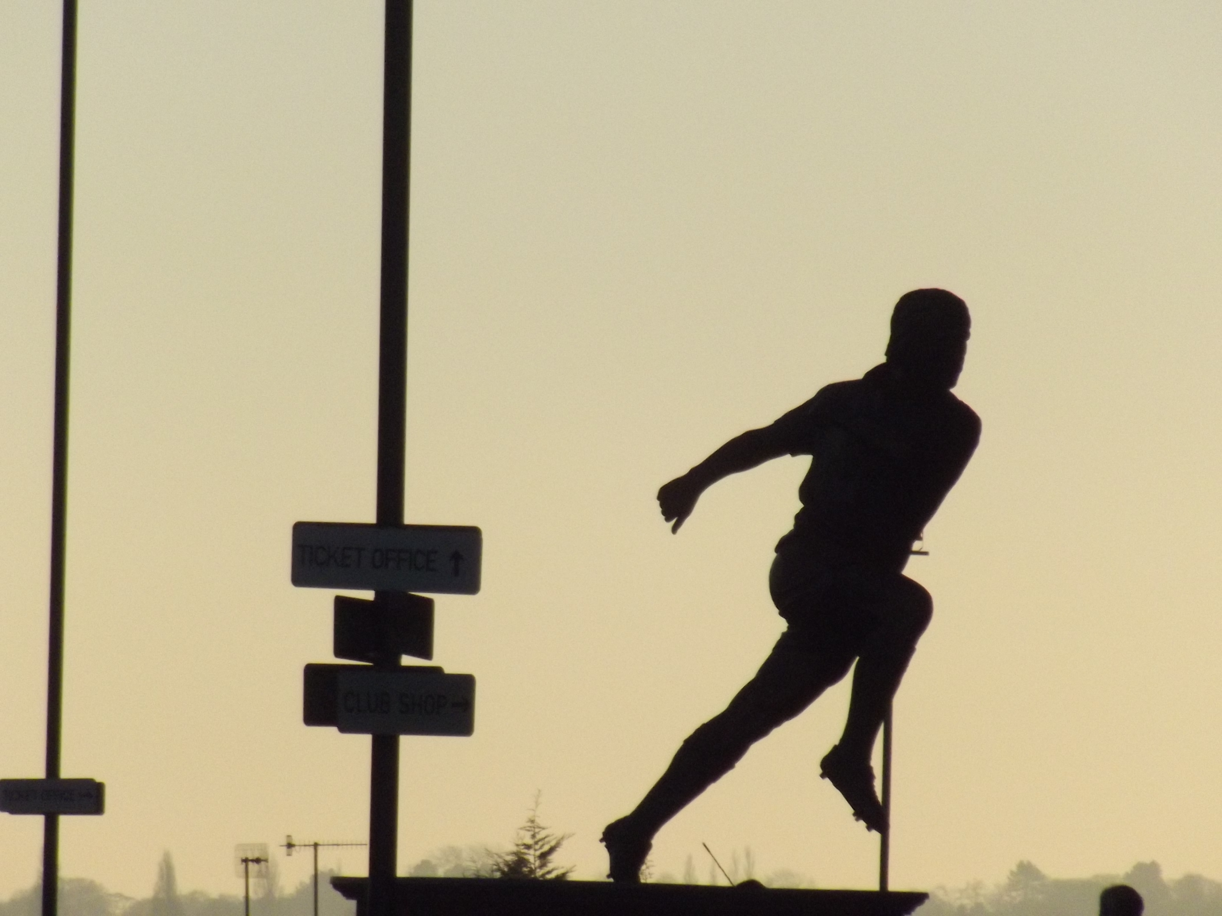 A look at The Hawthorns football ground / stadium. It is the home of West Bromwich Albion FC. And they have been here since 1900. The stadium is in easy reach from The Hawthorns Railway and Metro Station. And also has good bus connections on the Birmingham Road (e.g. the 74). The stadium as seen from Birmingham Road. Silhouette of the new Tony Brown statue.